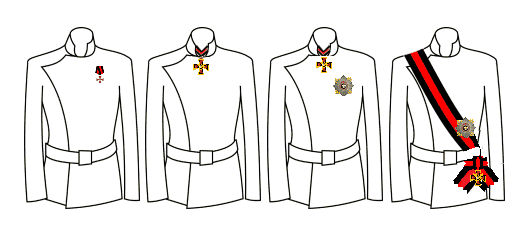 Order of S. Vladimir